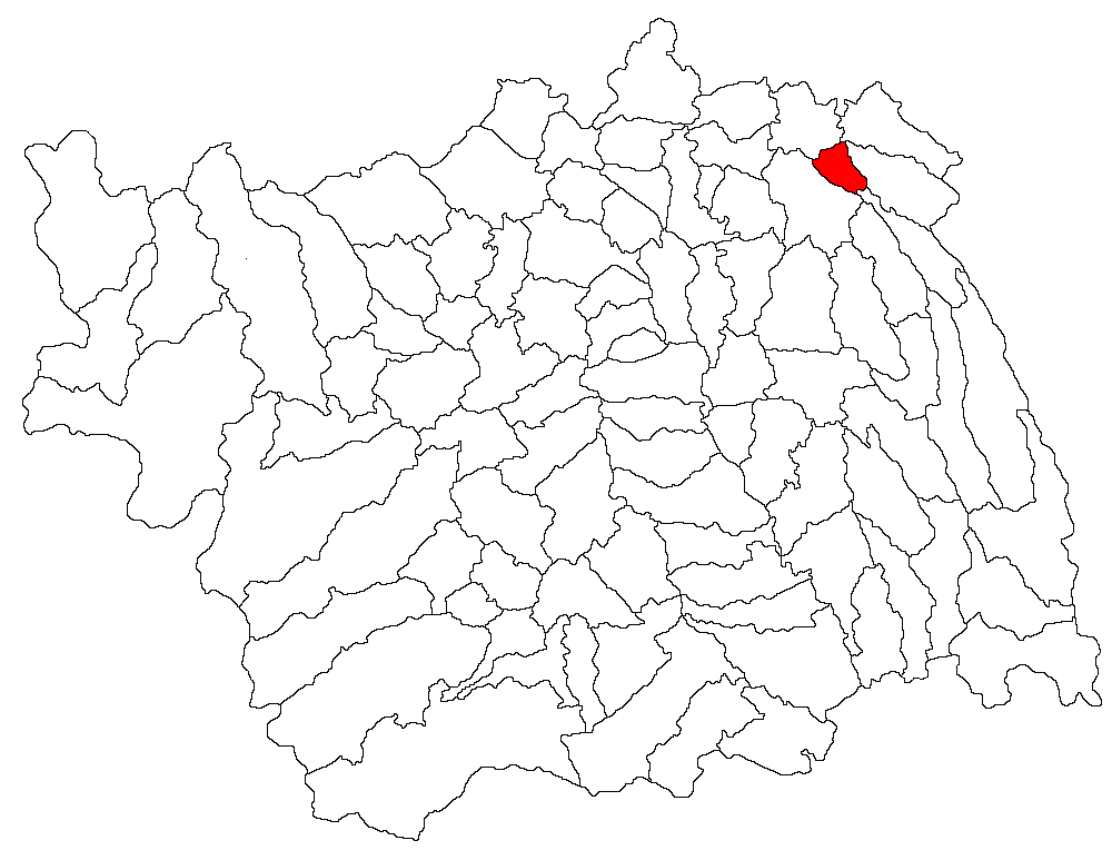 Locator map of the commune of Odobești, Bacău